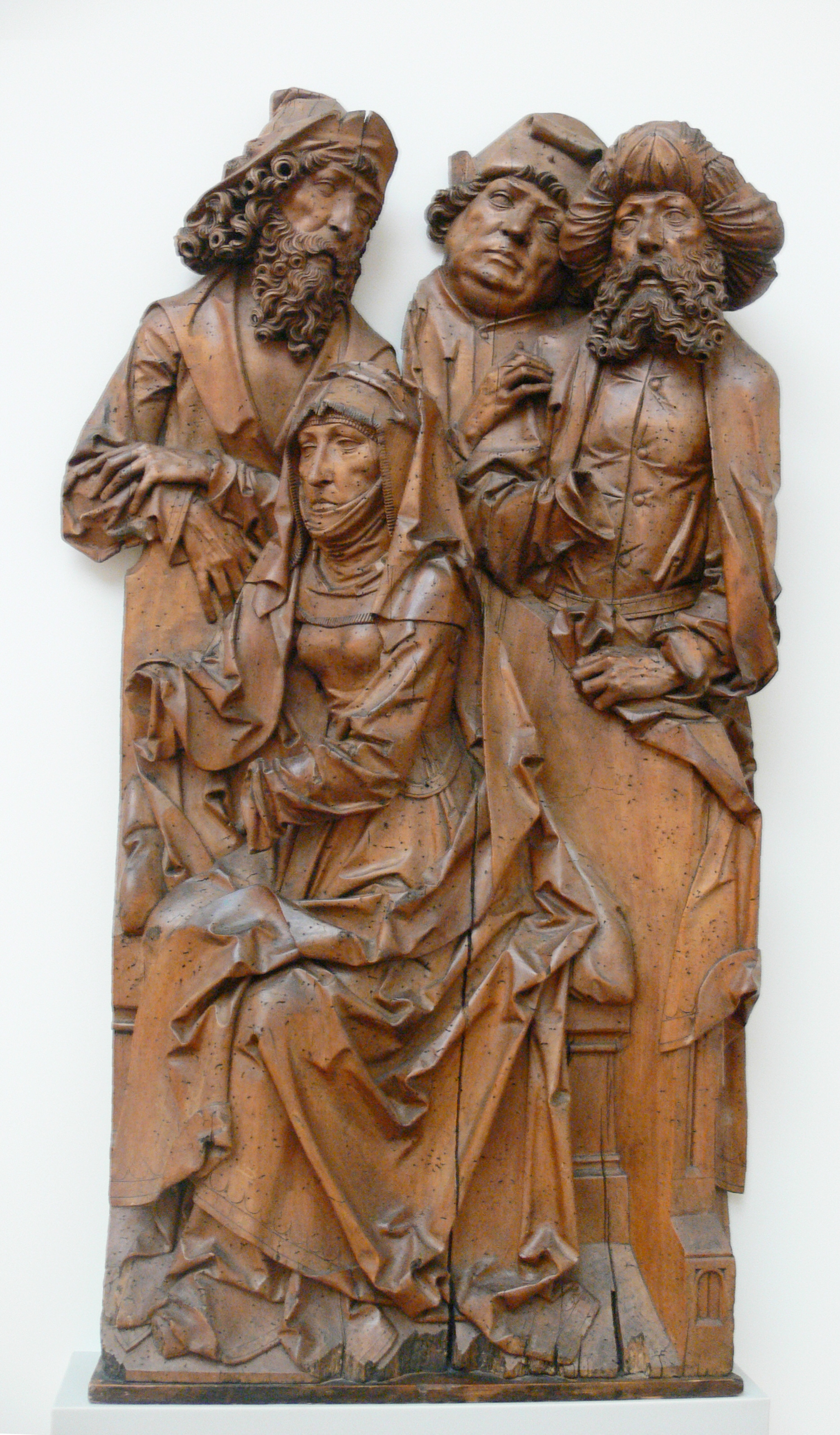 Tilman Riemenschneider: Saint Anne and her three husbands, c. 1500/1510, limewood. Skulpturensammlung (acquired in 2006), Bode-Museum Berlin.